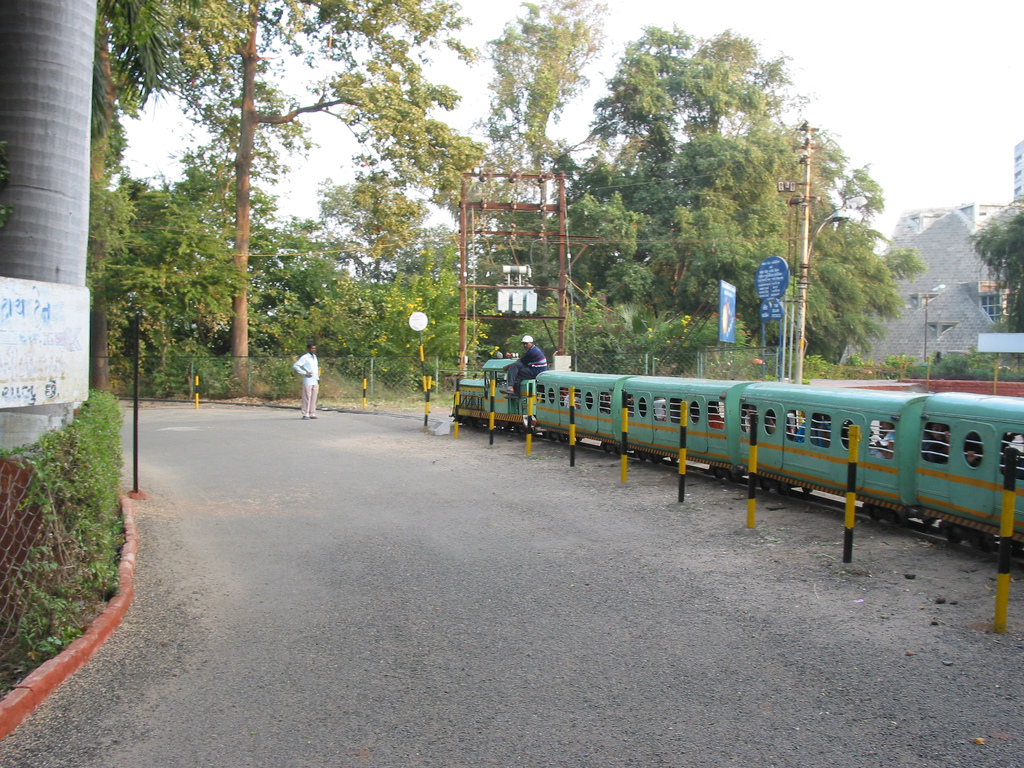 Sayaji Baug Toy Train. The toy train ride runs on a track of width 10 inches (250 mm) covering a distance of 3.5 km giving the entire view of the garden to riders.